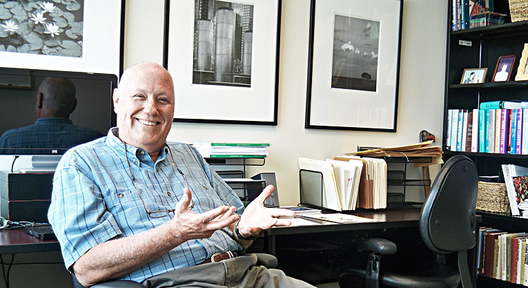 This is a picture of Robert D. Pritchard